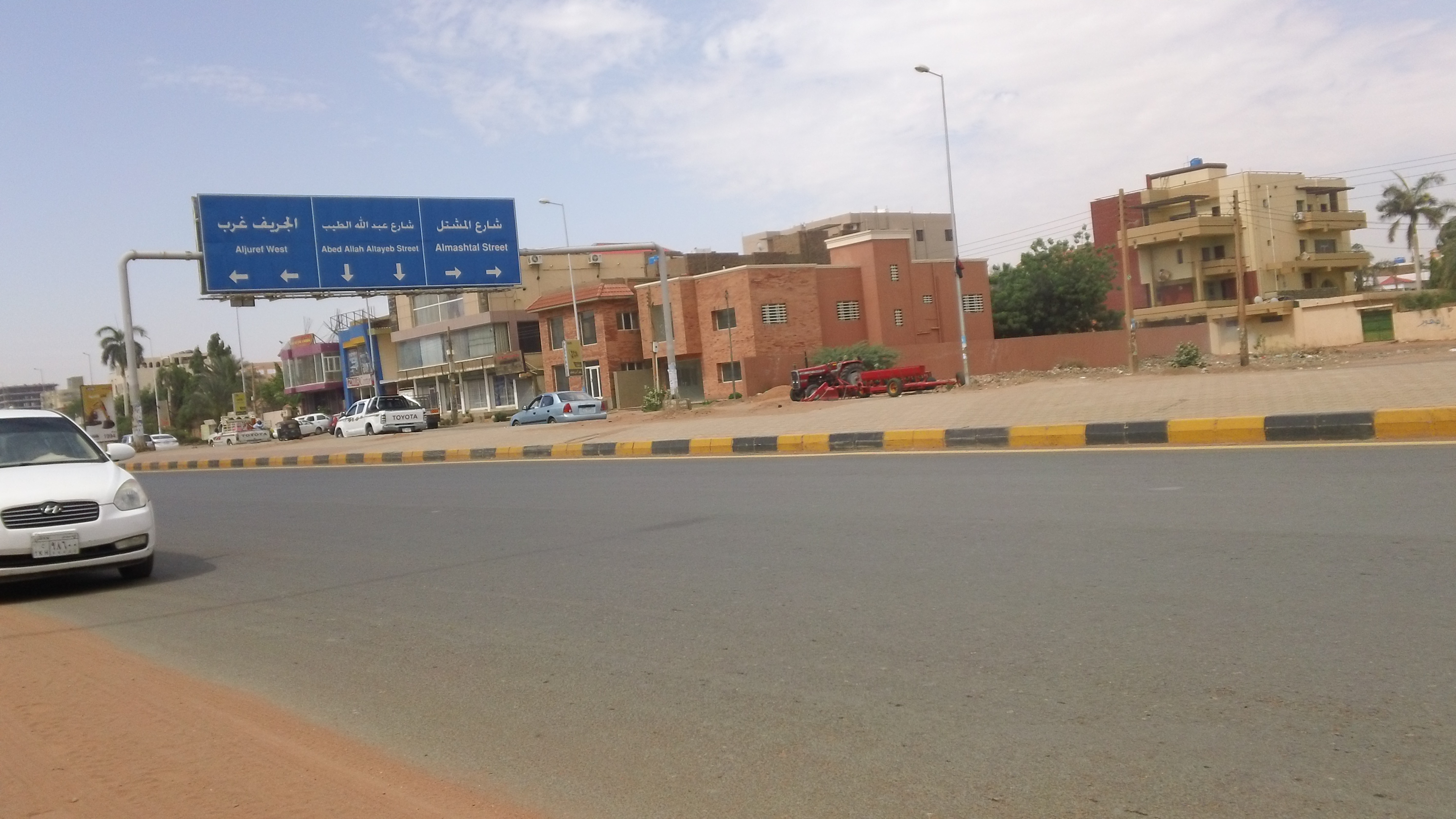 Bashir Elnafigi or (60th) Road -Khartoum -Sudan